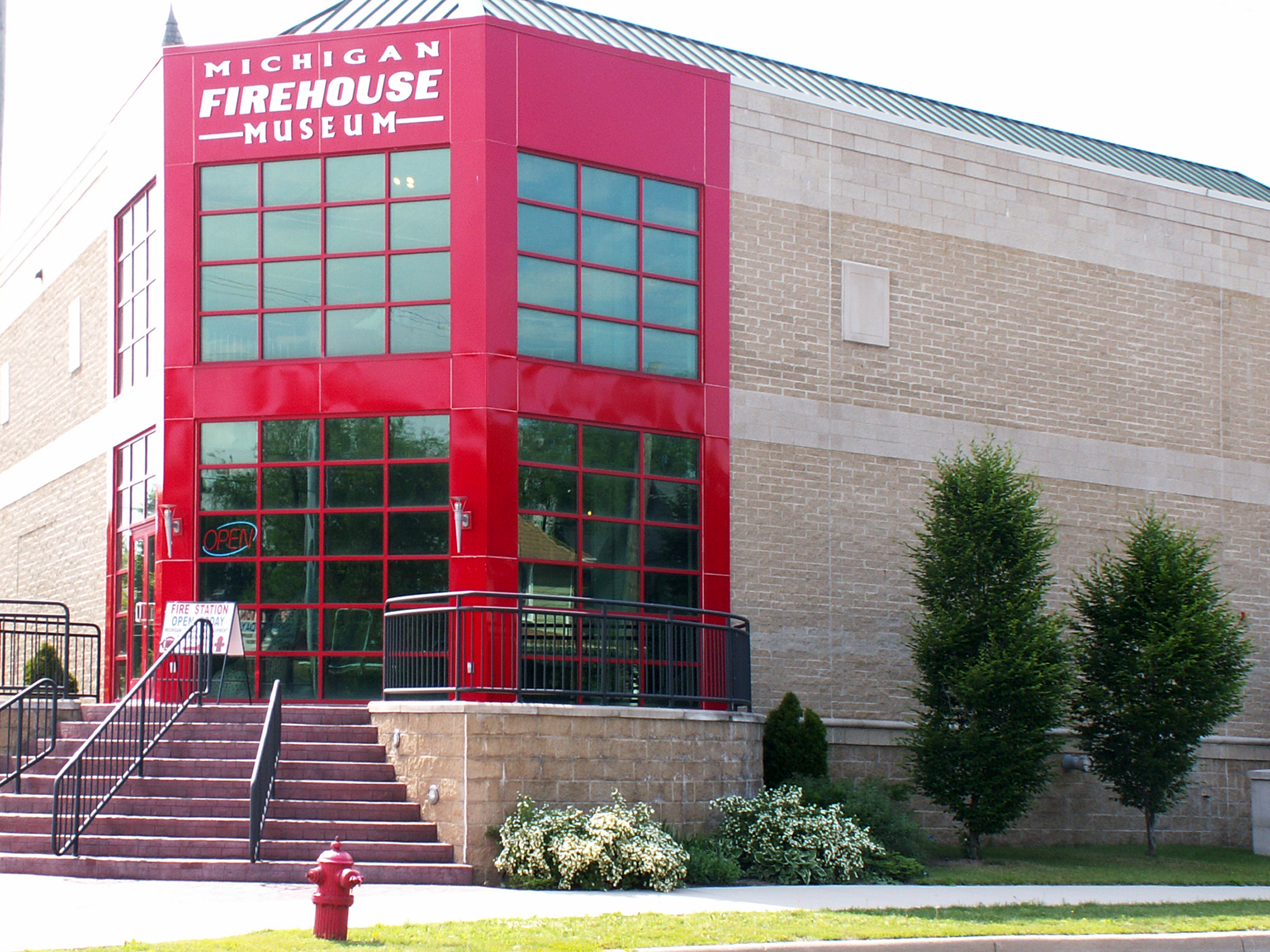 The entrance to the 10,000 square foot addition to the historic building was completed in the summer of 2002.